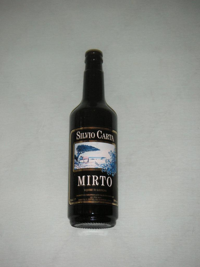 empty Mirto bottle